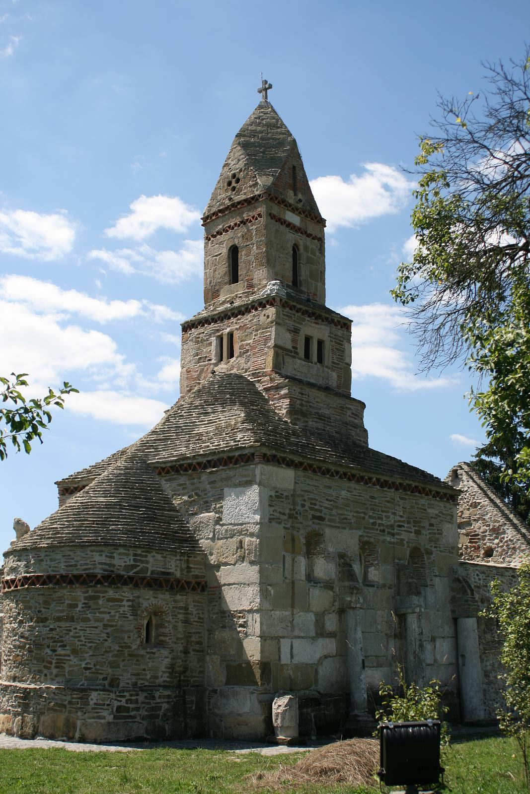 Densuş Church, Transylvania